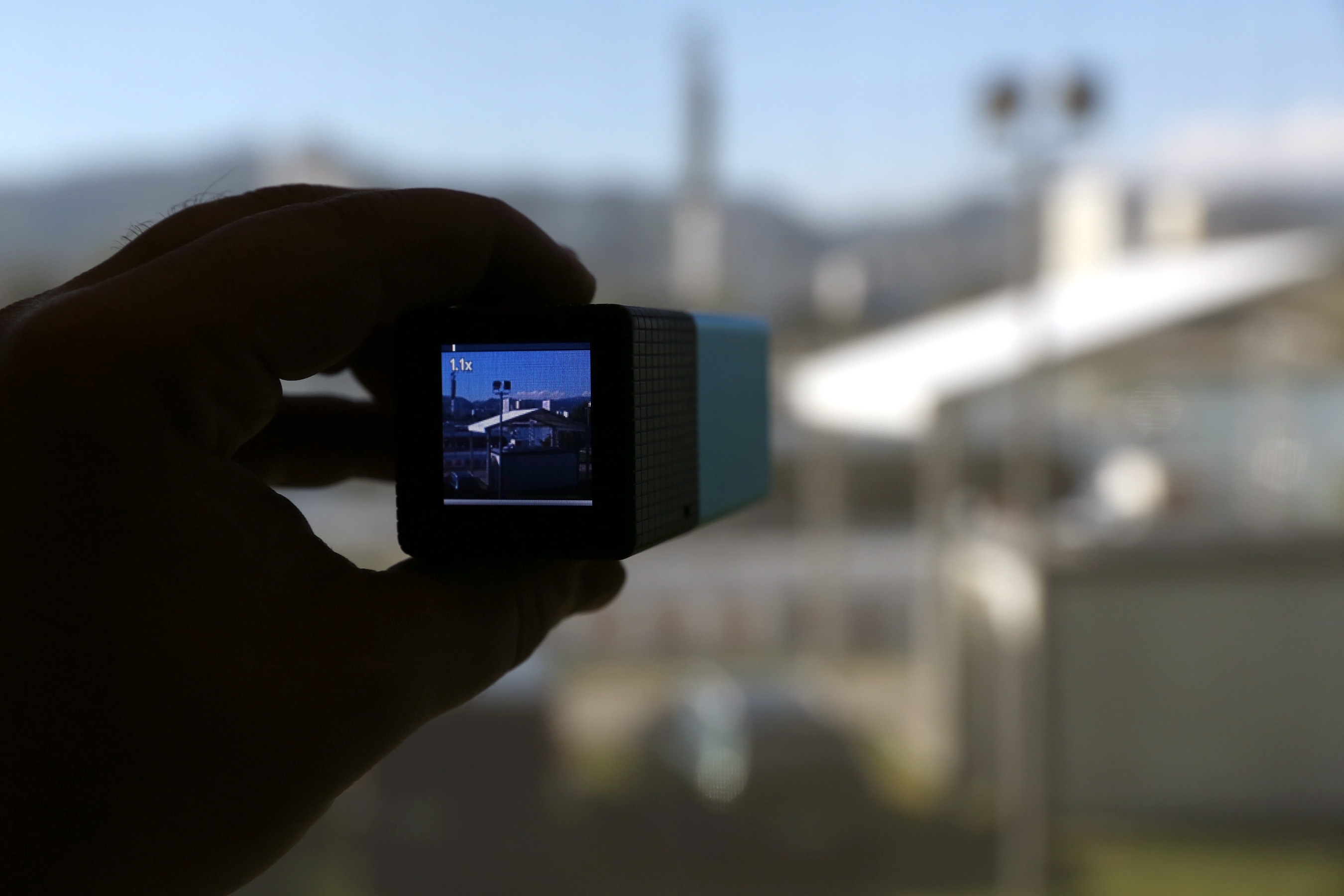 Lytro-Light-field camera at Ars Electronica 2013 at Brucknerhaus, Linz, Upper Austria.